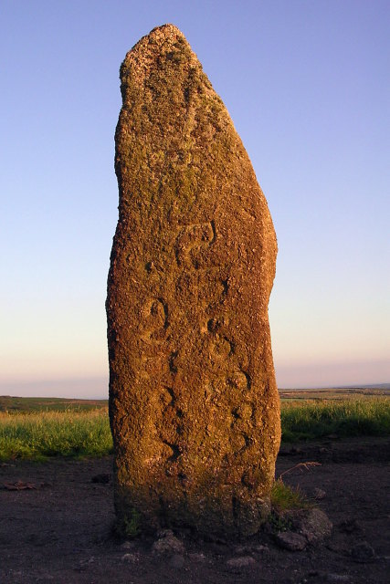 Men Scryfa The inscribed side of the stone, obliquely illuminated by the setting sun. The inscription stands out reasonably clearly but you'll still need to use your imagination a bit to see "RIALOBRANI CUNOVALI FILI" which in Cornish means 'Royal Raven son of the Glorious Prince'.